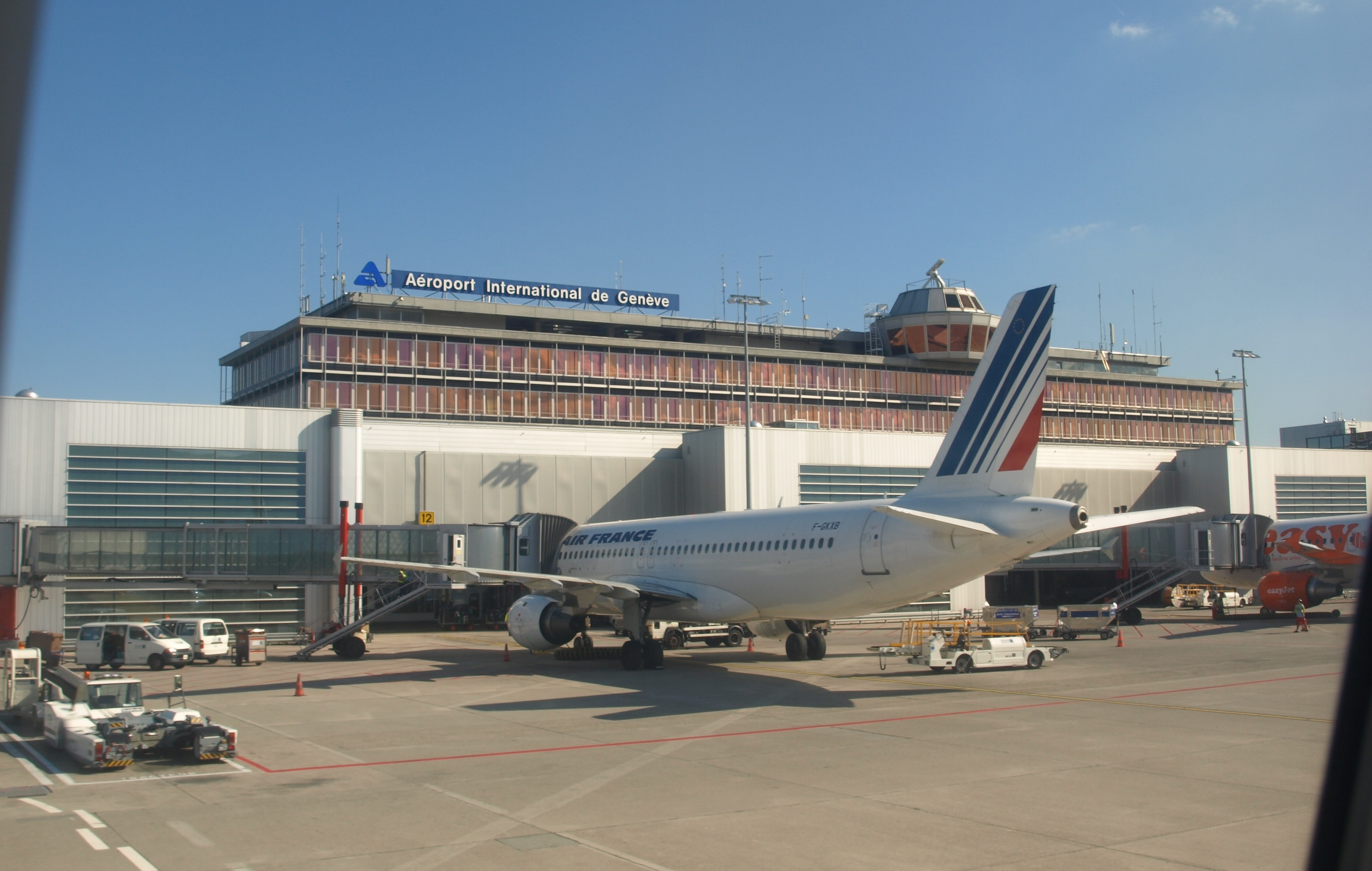 An Airbus A320-211 aircraft (F-GKXB) of Air France in front of the passenger terminal at Geneva International Airport.